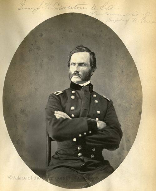 Photograph of General James Henry Carleton, 19th century American Army officer.